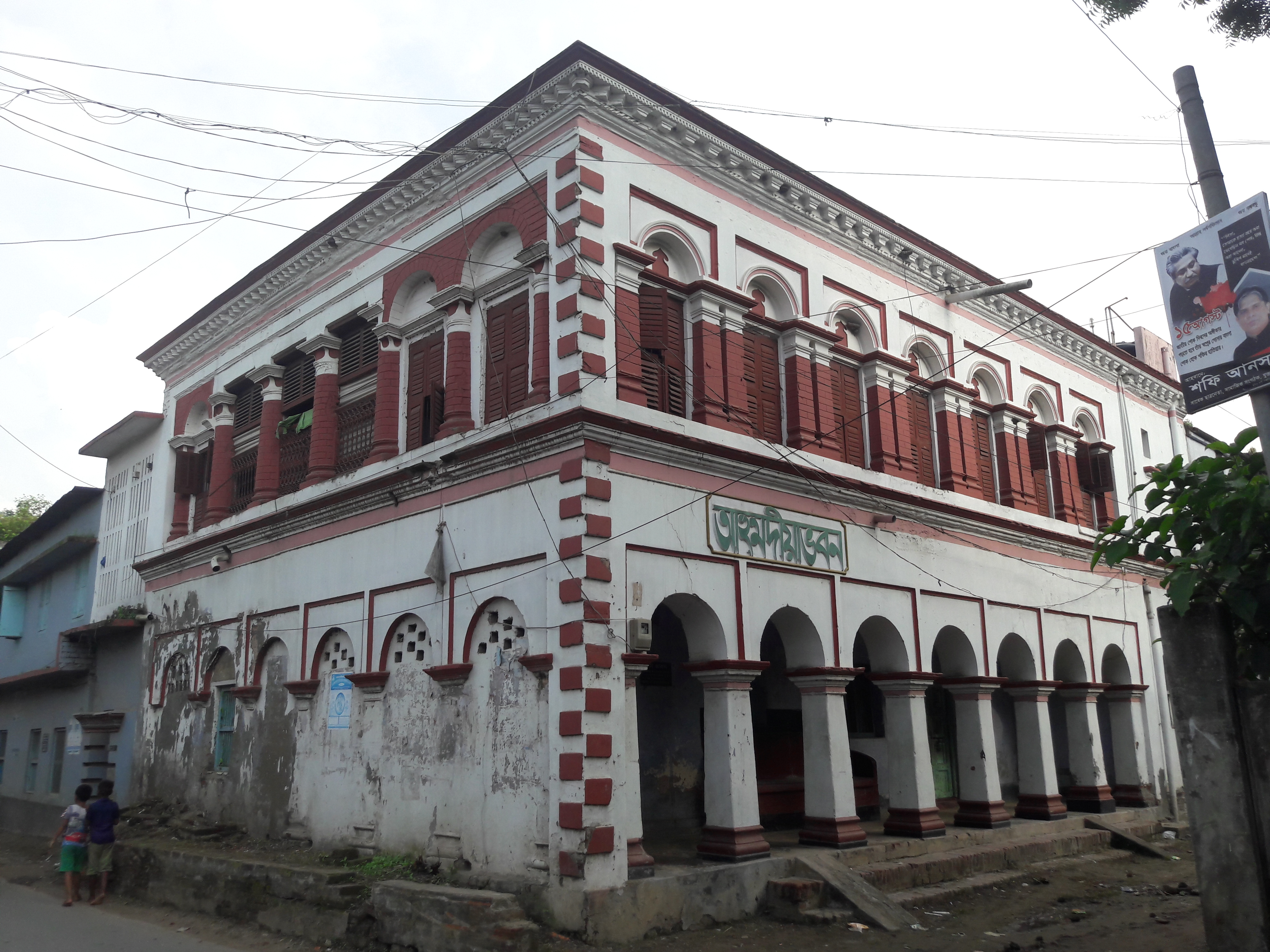 Ahmodia Bhaban, Rohanpur is a ancient and historical building. Rulers of this region used to stay here as a rest house.